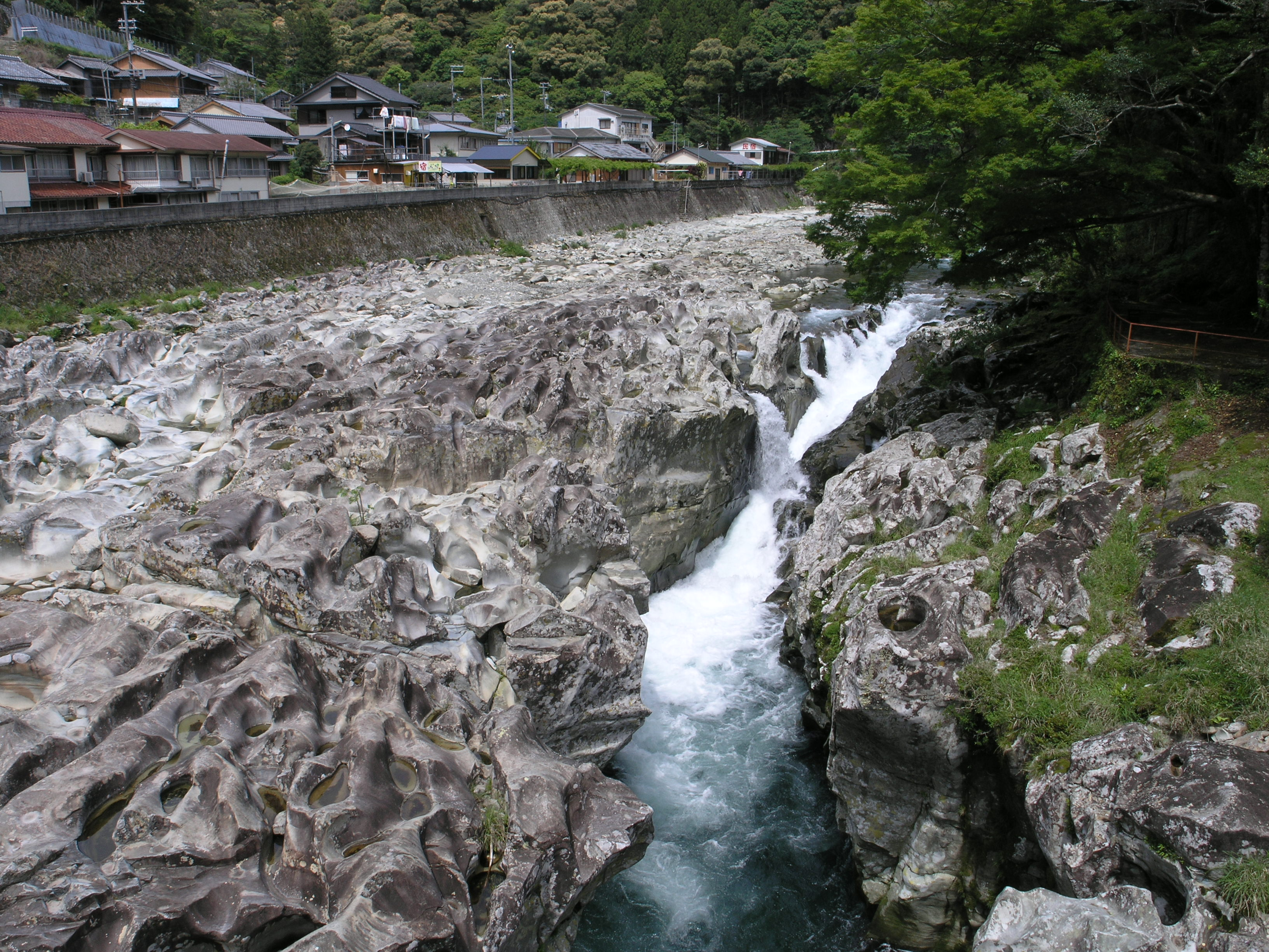 Takinohai in Kozagawa, Wakayama.